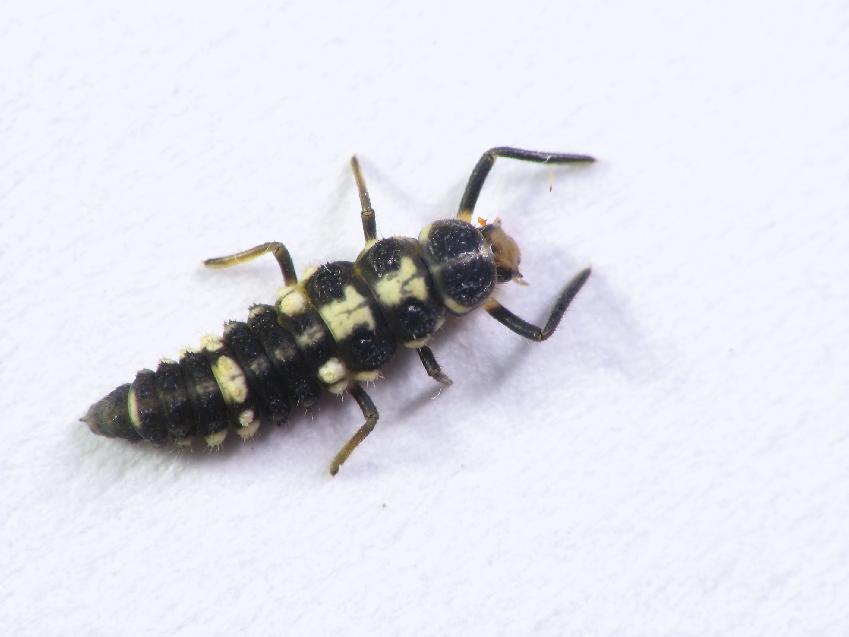 Propylea quatuordecimpunctata (Fourteen-spotted Lady Beetle) larva. Pennypack Restoration Trust, Montgomery County, Pennsylvania, USA. July 13, 2009.